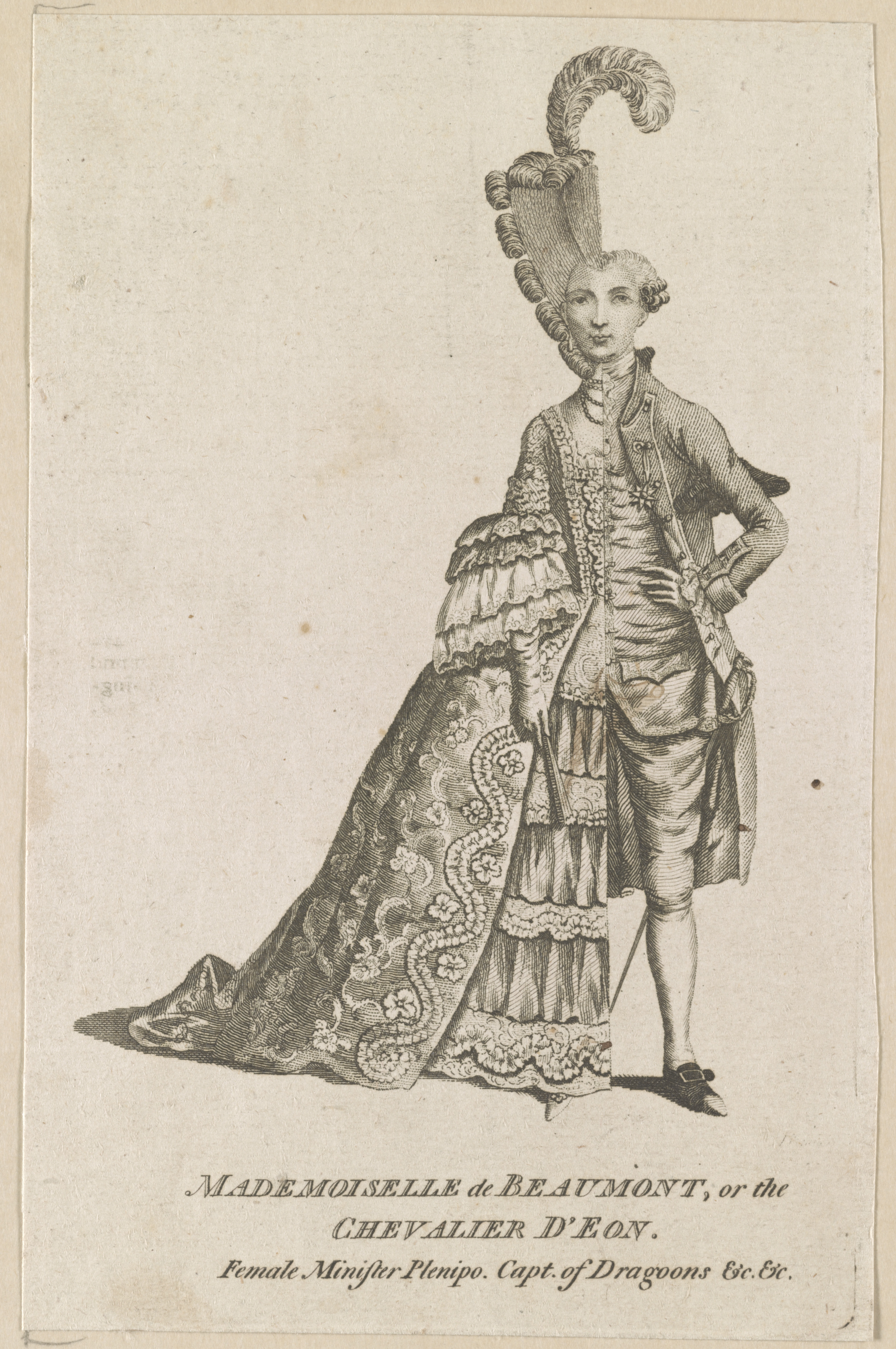 Title: Mademoiselle de Beaumont or The Chevalier D'Eon Abstract: "D'Eon (W.L.) dressed half as a woman, half as a man. On his right side he wears a lady's full dress, his hair in the fashionable inverted pyramid decorated by a feather..." (Source: George) Physical description: 1 print : engraving. Notes: Forms part of: British Cartoon Prints Collection (Library of Congress).; Lond. Mag. Sepr. 1777. From the London Magazine, xlvi. 443.; Caption continues: Female minister plenipo. Capt. of Dragoons &c. &c.; This record contains unverified data from George.; Title from item.